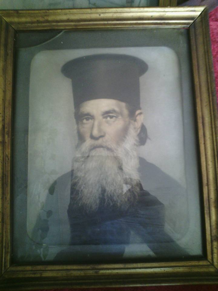 Photo of priest Ivan Popivanov (15.02.1878-12.07.1955) from Baldevo, participant in national Bulgarian liberation movements